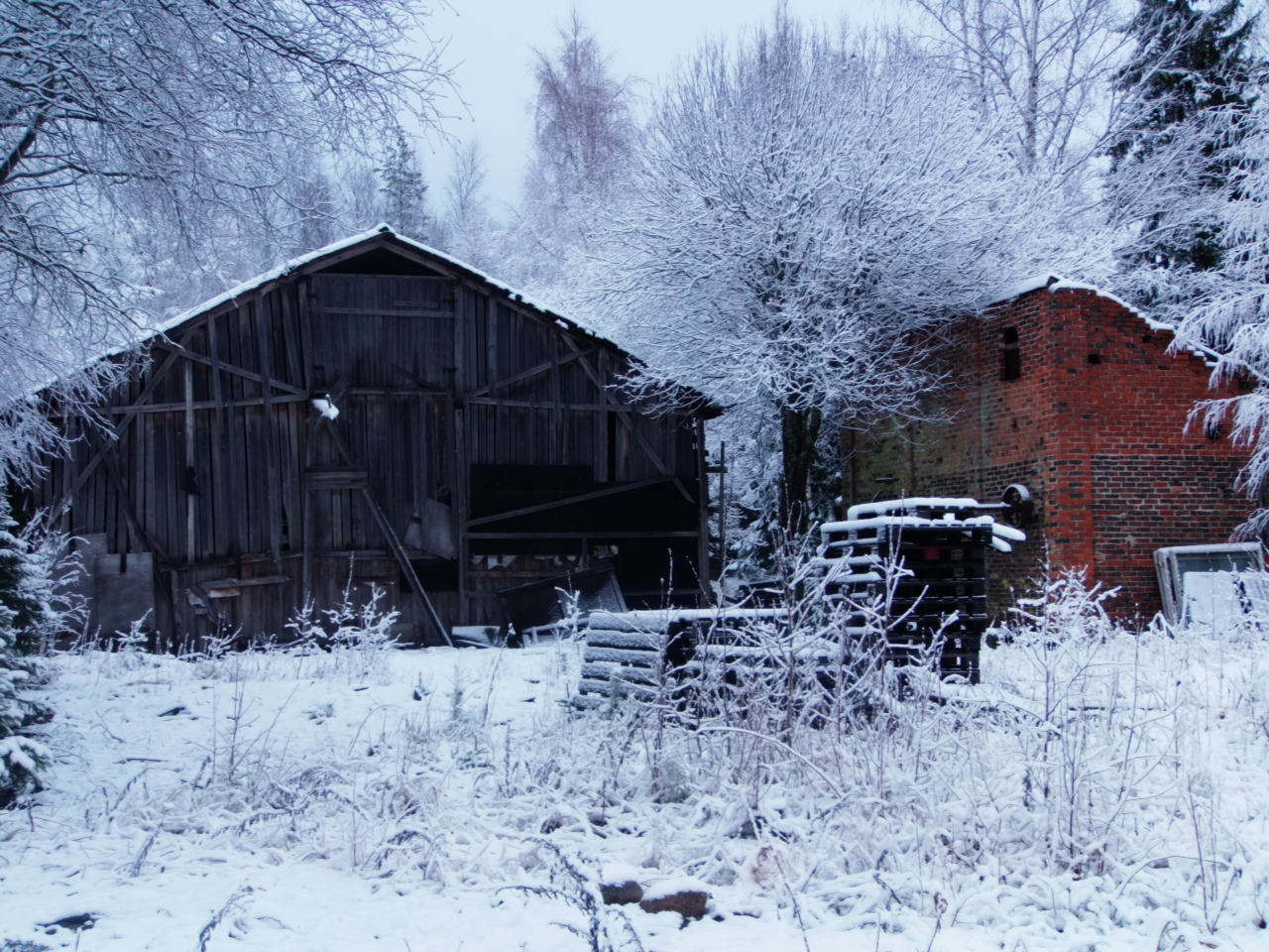 Reject turfmull factory in Hanhisuo.